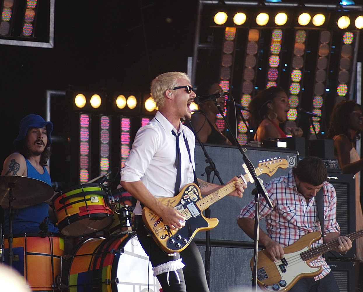 Silverchair at Big Day Out 2008, Melbourne Flemington Racecourse.